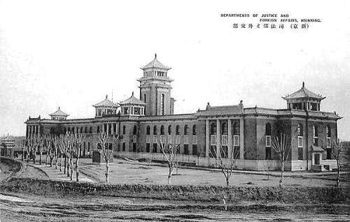 Manchukuo capital police hall.